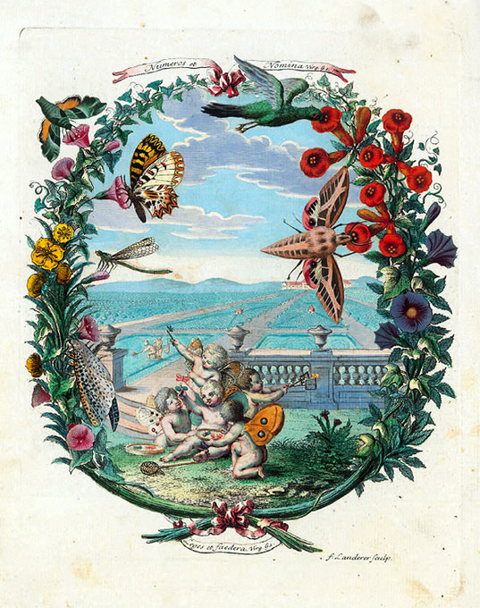 Book frontispiece of Denis & Schiffermüllers Ankündung eines systematischen Werkes der Schmetterlinge der Wienergegend, herausgegeben von einigen Lehrern am k. k. Theresianum, 1775